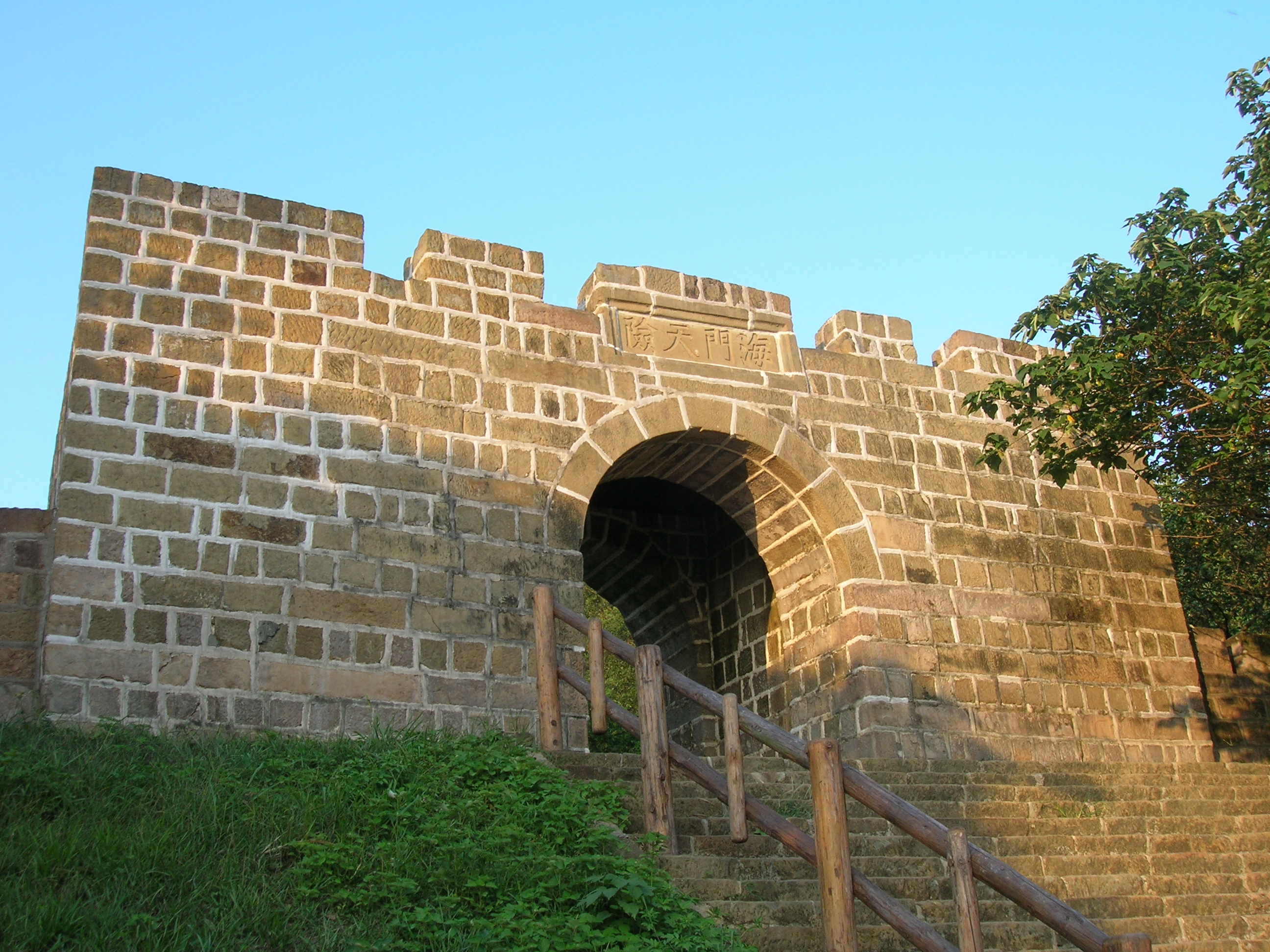 Uhrshawan Battery, or better known as Tenable Gate of the Sea (hai-men-tien-hsien) is a battery emplacements camp in Keelung, Taiwan.